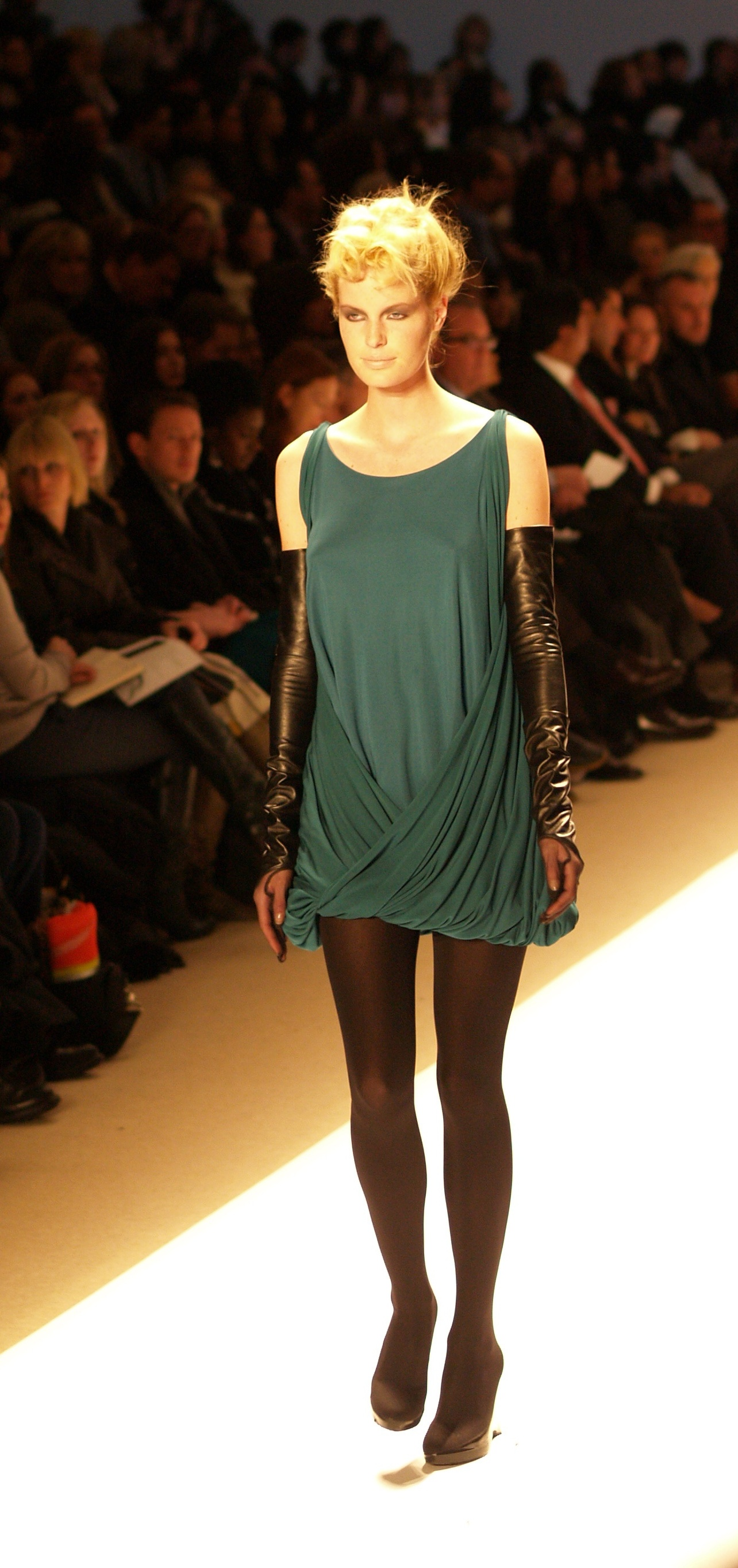 Doo-Ri Chung's catwalk show during New York Fall Fashion Week 2007 at the tents in Bryant Park New York.